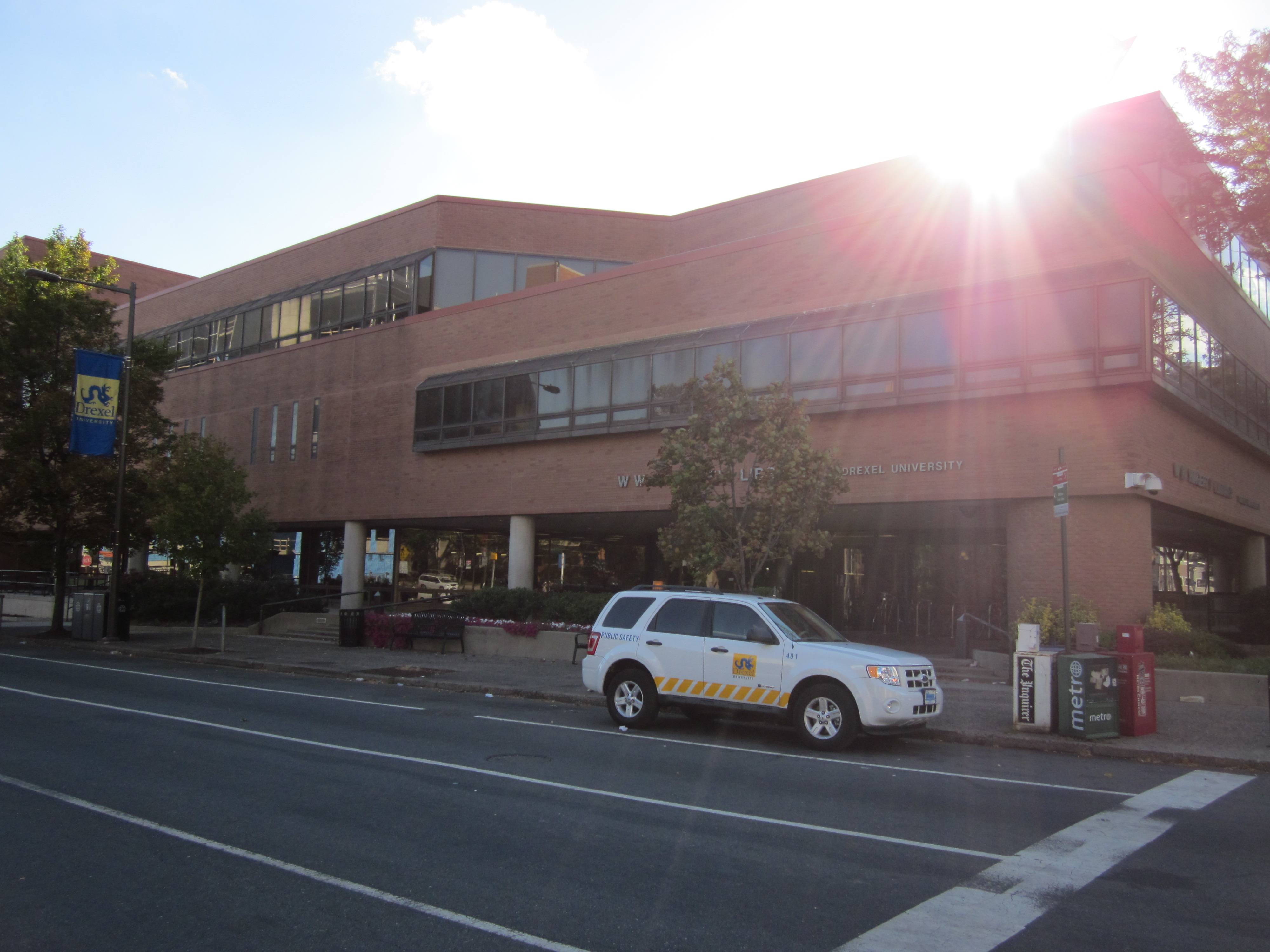 W.W. Hagerty Library at Drexel University